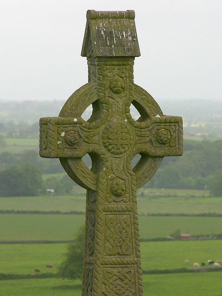 High Cross at the Rock of Cashel. Photograph taken June 15, en:2002, with a Canon D60 camera.